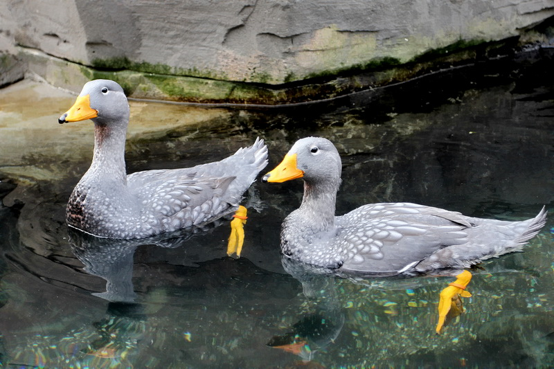 Magellanic steamer duck